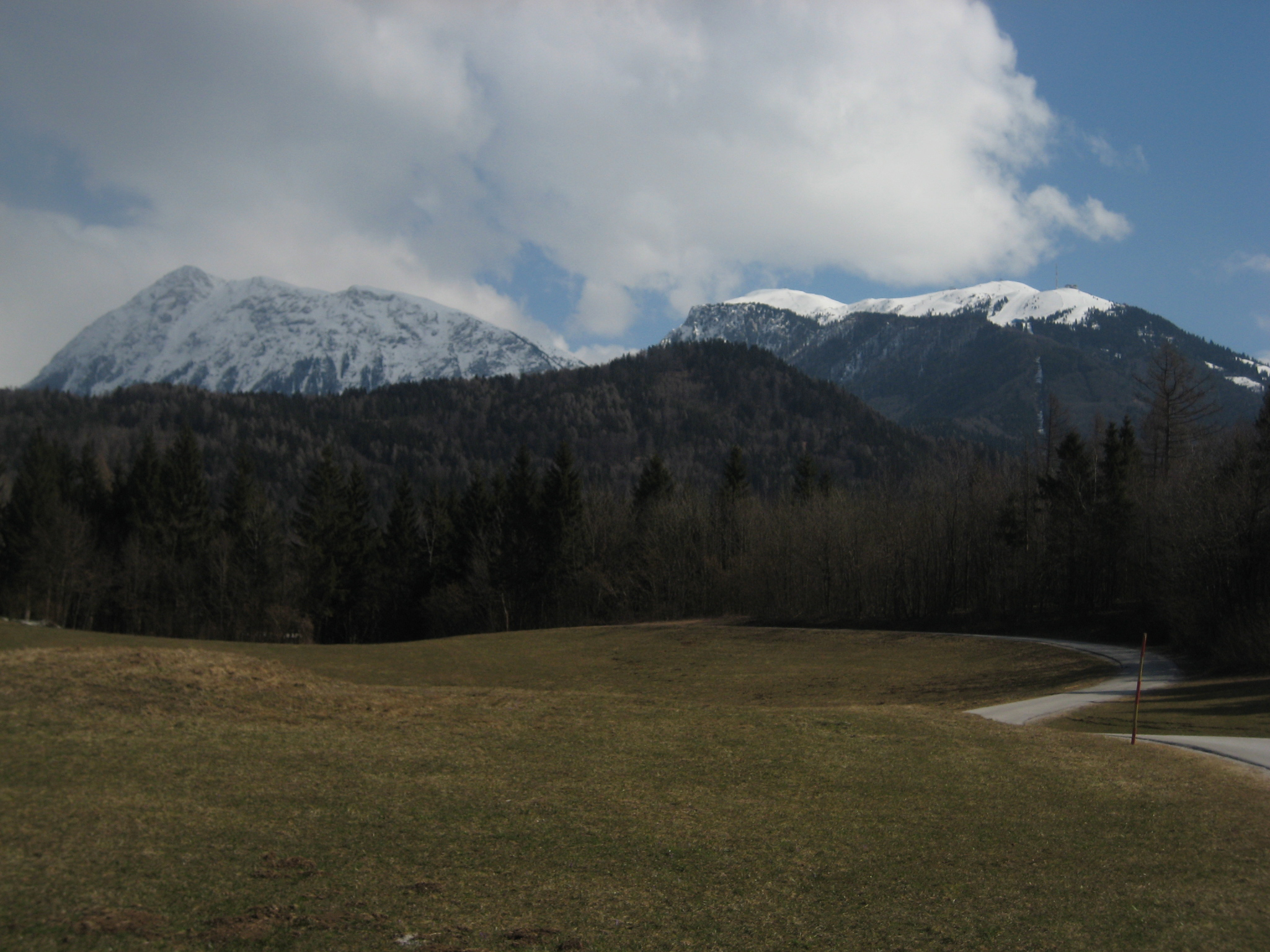 Kalški greben (left), Krvavec (right); mountains in Slovenia